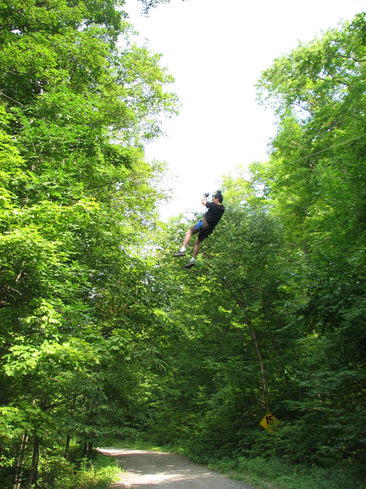 Wilder Mendez